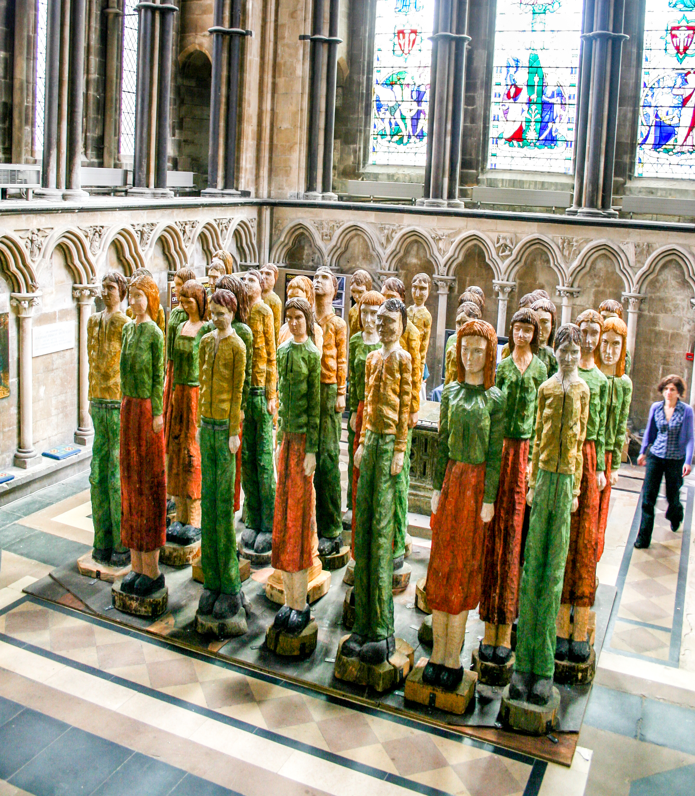 Exhibition of the Odyssey project by Sculptor Robert Koenig. Showing at Worcester Cathedral in the UK in 2009